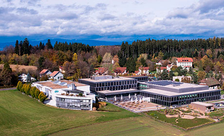 Aerial view of the campus